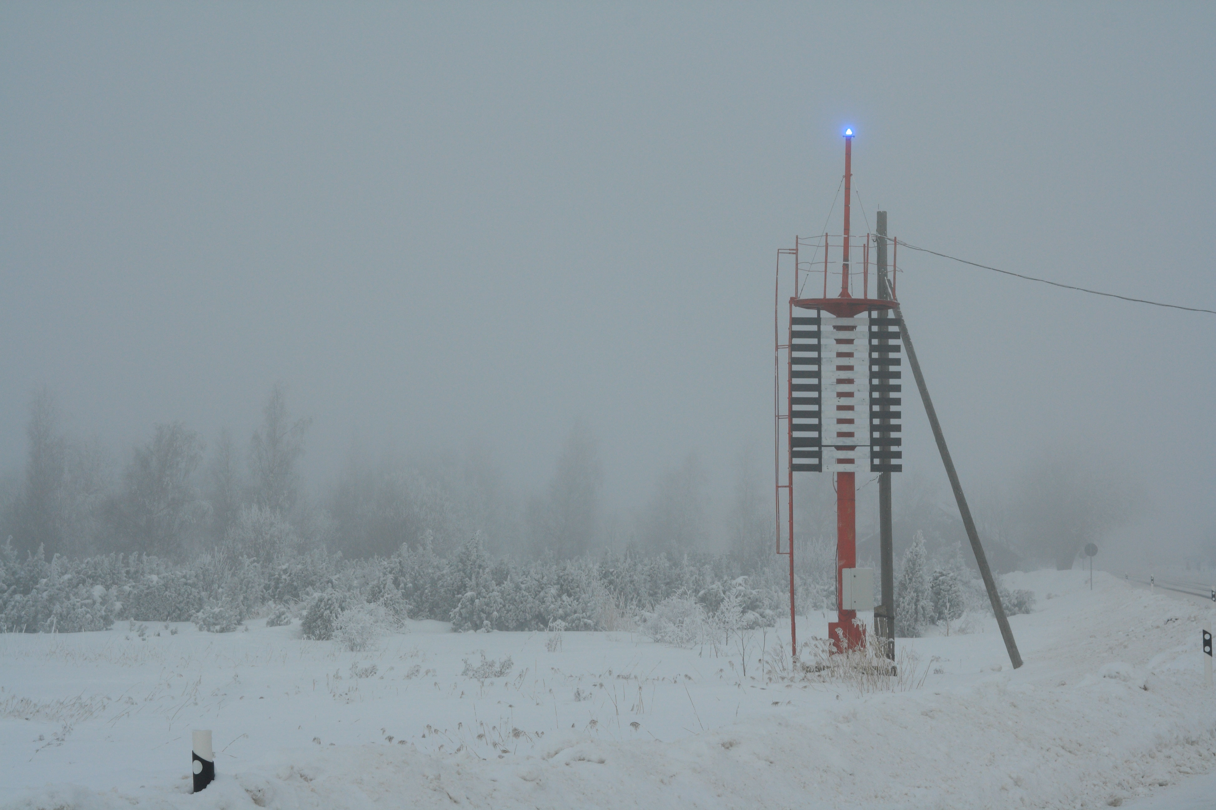 Lightbeacon in Roomassaare, Estonia